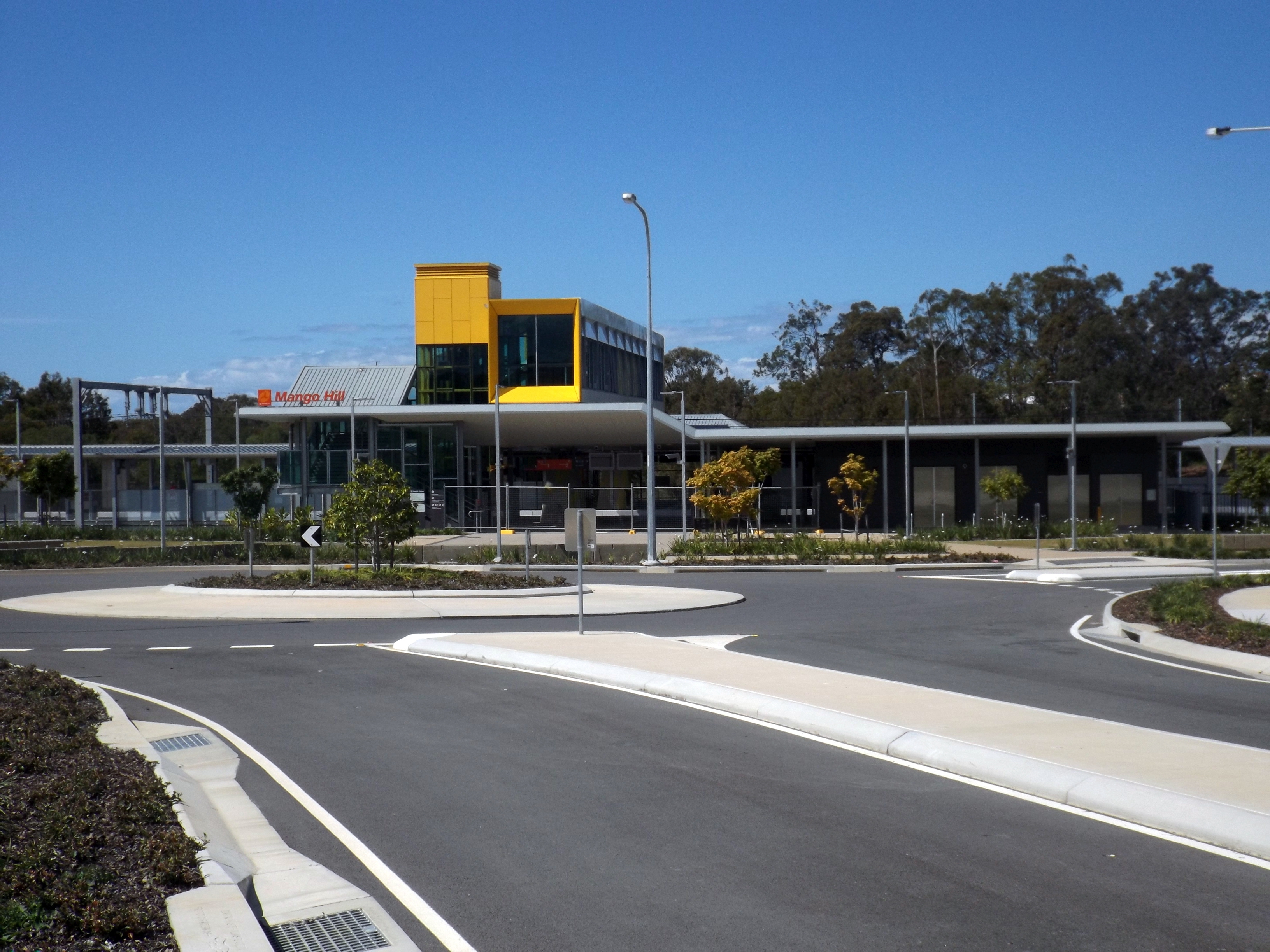 Photo of Mango Hill railway station at Mango Hill, Moreton Bay, Queensland, Australia.